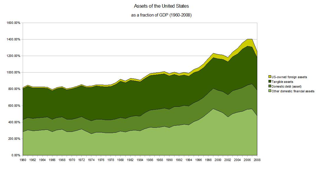 Assets of the United States (1960-2008) as a fraction of GDP from [1] Tangible assets is the total of nonfarm nonfinancial corporate business, nonfarm noncorporate business, households and non-profits, state and local government, federal government, and financial sector. This includes all sectors except farm business, for which no data is available. (although this is likely to be small) Domestic debt is debt owed by Americans to Americans. It is total credit market debt minus foreign-owned credit market debt. US owned foreign assets is foreign liabilities plus US-owned corporate equities. "Other domestic financial assets" is whatever is left of total assets after subtracting US owned foreign assets and domestic debt. This is mostly things like bank deposits and pension fund reserves.